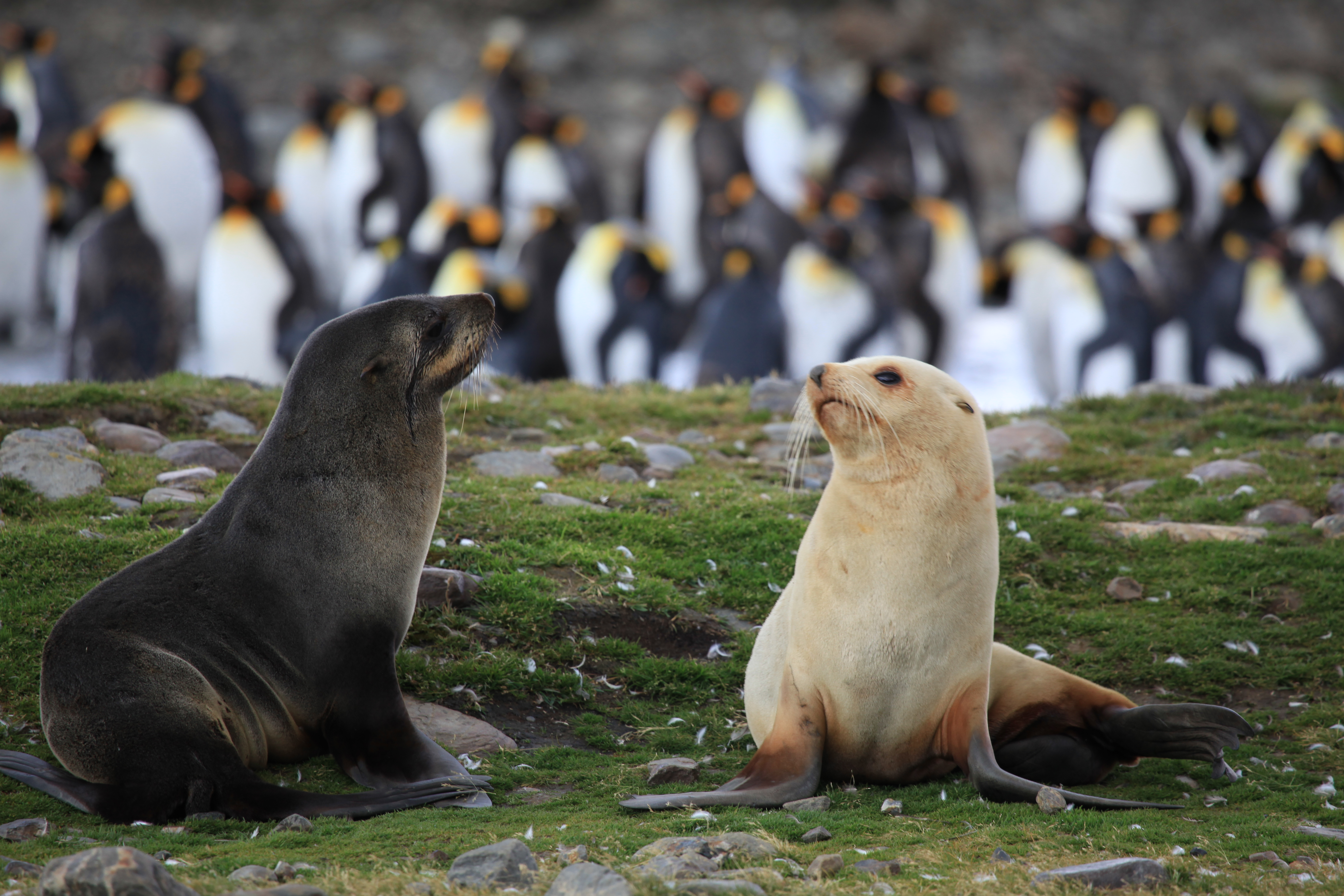 The blond fur seal has a condition called albinism that results in reduced pigmentation. At St. Andrews Bay, South Georgia.